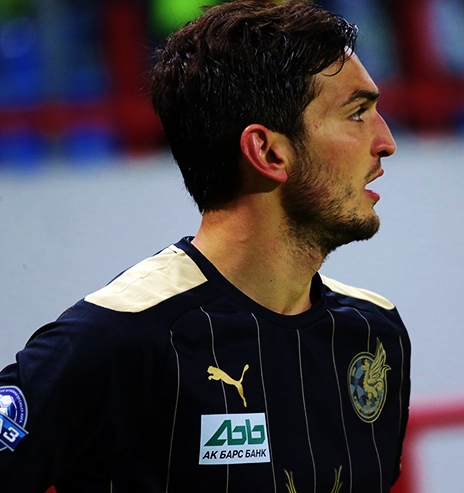 Magomed Ozdoyev